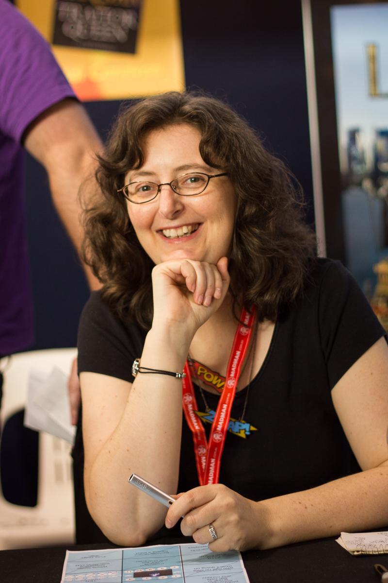 Trudi Canavan at the signing table of Perth in June 2013